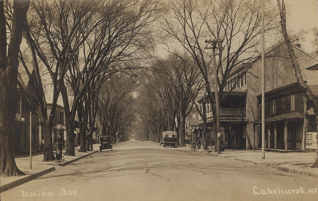 View of Union Avenue in Lakehurst, New Jersey, about 1910; web page states: "Shows a Gas Pump on the left and also on the right with a sign that says service station."